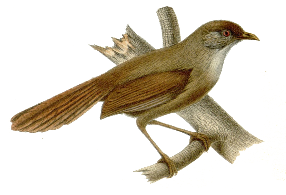 Moupinia poecilotis